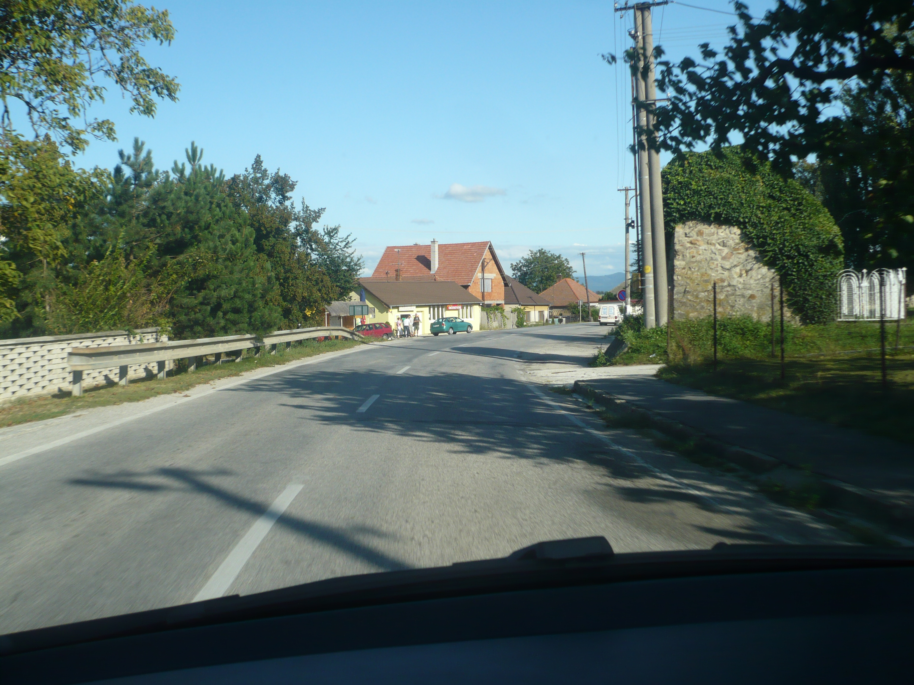 Inside the village Foto obce